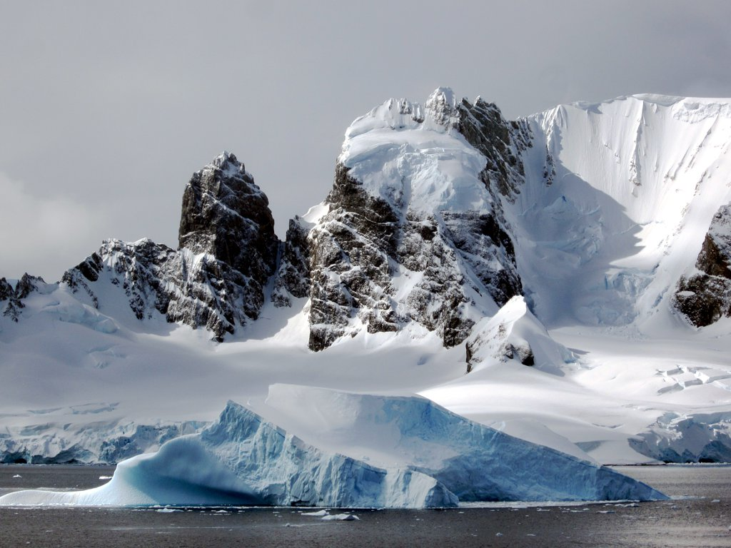 Spigot Peak on the Antarctic Peninsula facing Cuverville Island was named for its resemblance to a wooden peg.